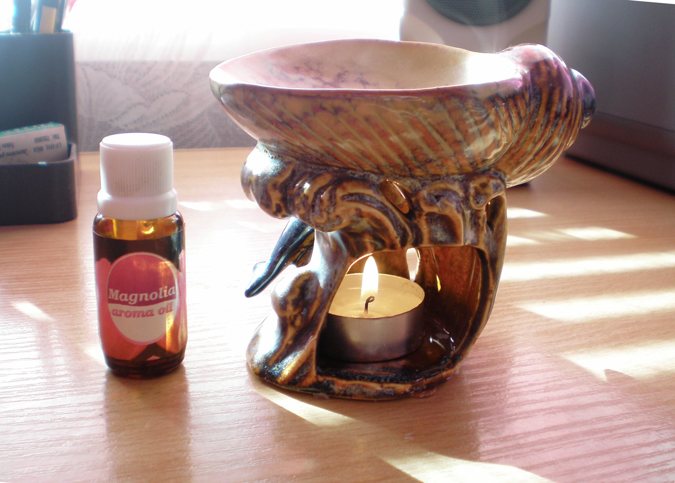 Aromatic candle